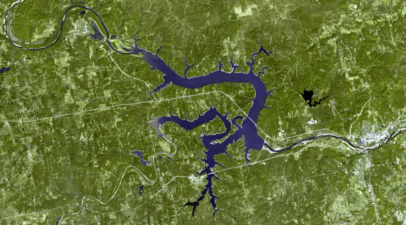 Keystone Lake, Oklahoma, from Space. The raw satellite imagery shown in these images was obtain from NASA and/or the US Geological Survey. Post-processing and production by